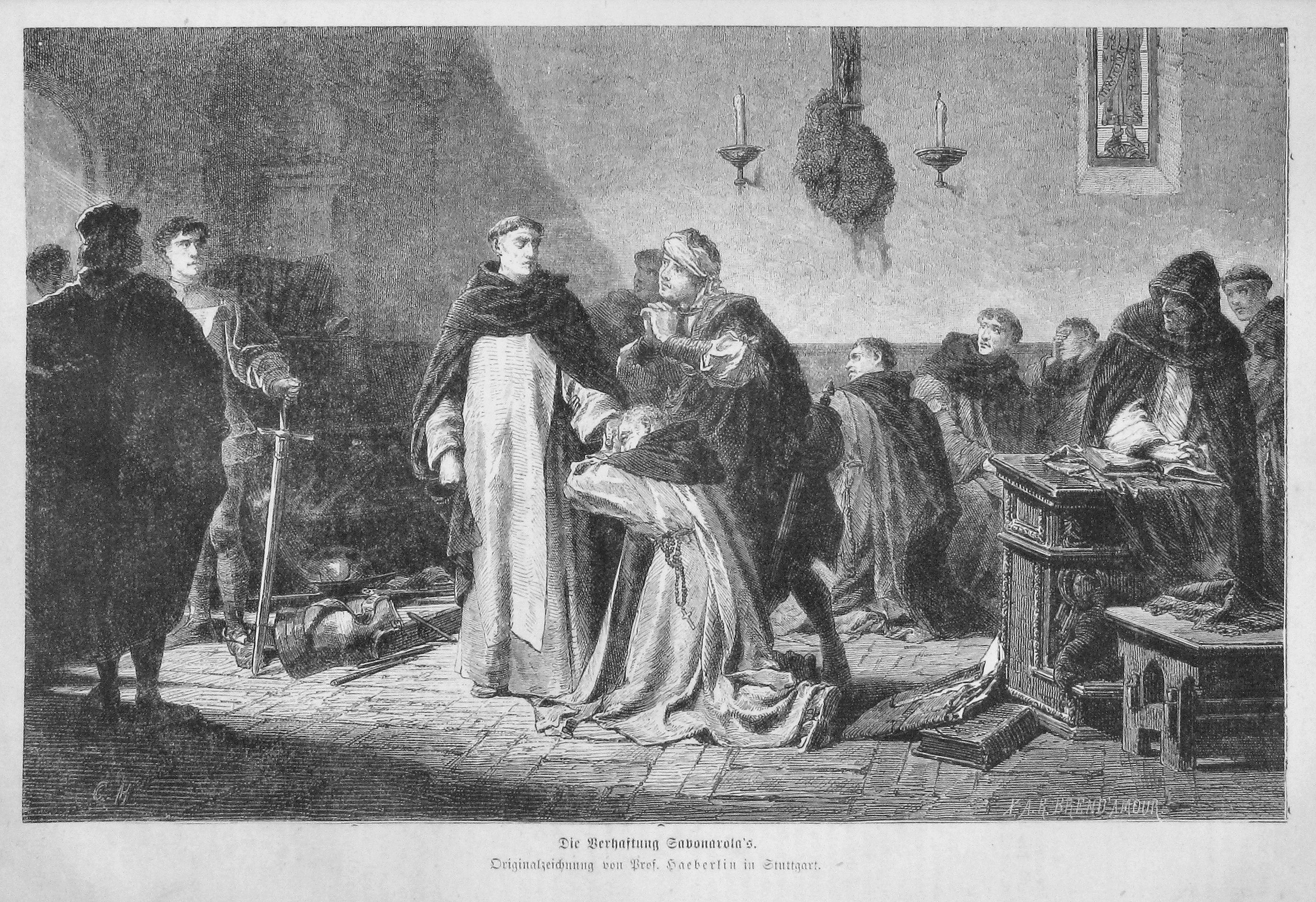 caption: "Die Verhaftung Savonarola’s. Originalzeichnung von Prof. Haeberlin in Stuttgart."